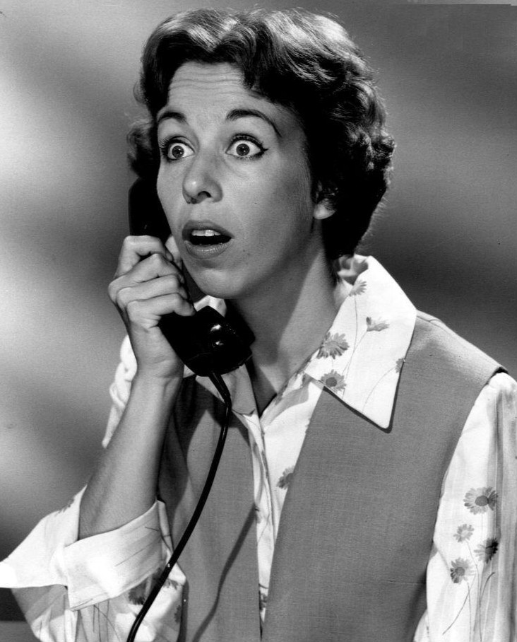 Photo of Carol Burnett during a comedy routine.